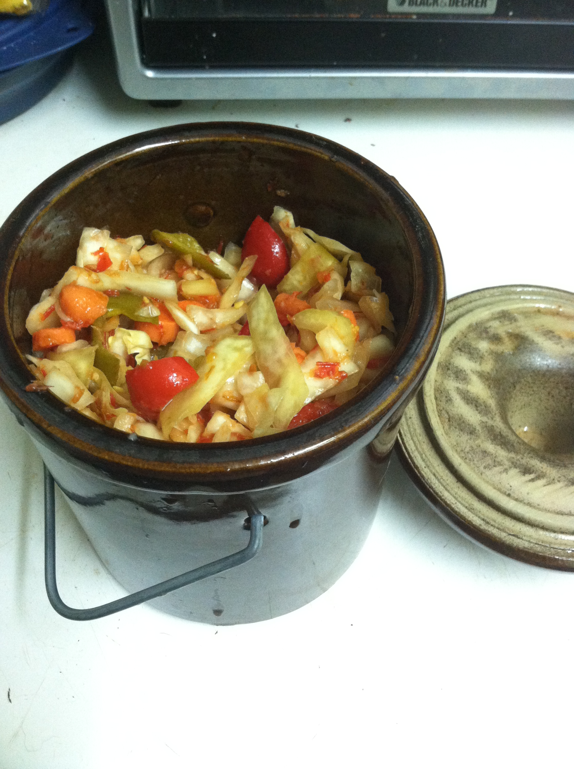 Fresh batch of homemade fermented kimchi placed into a ceramic crock for storage.